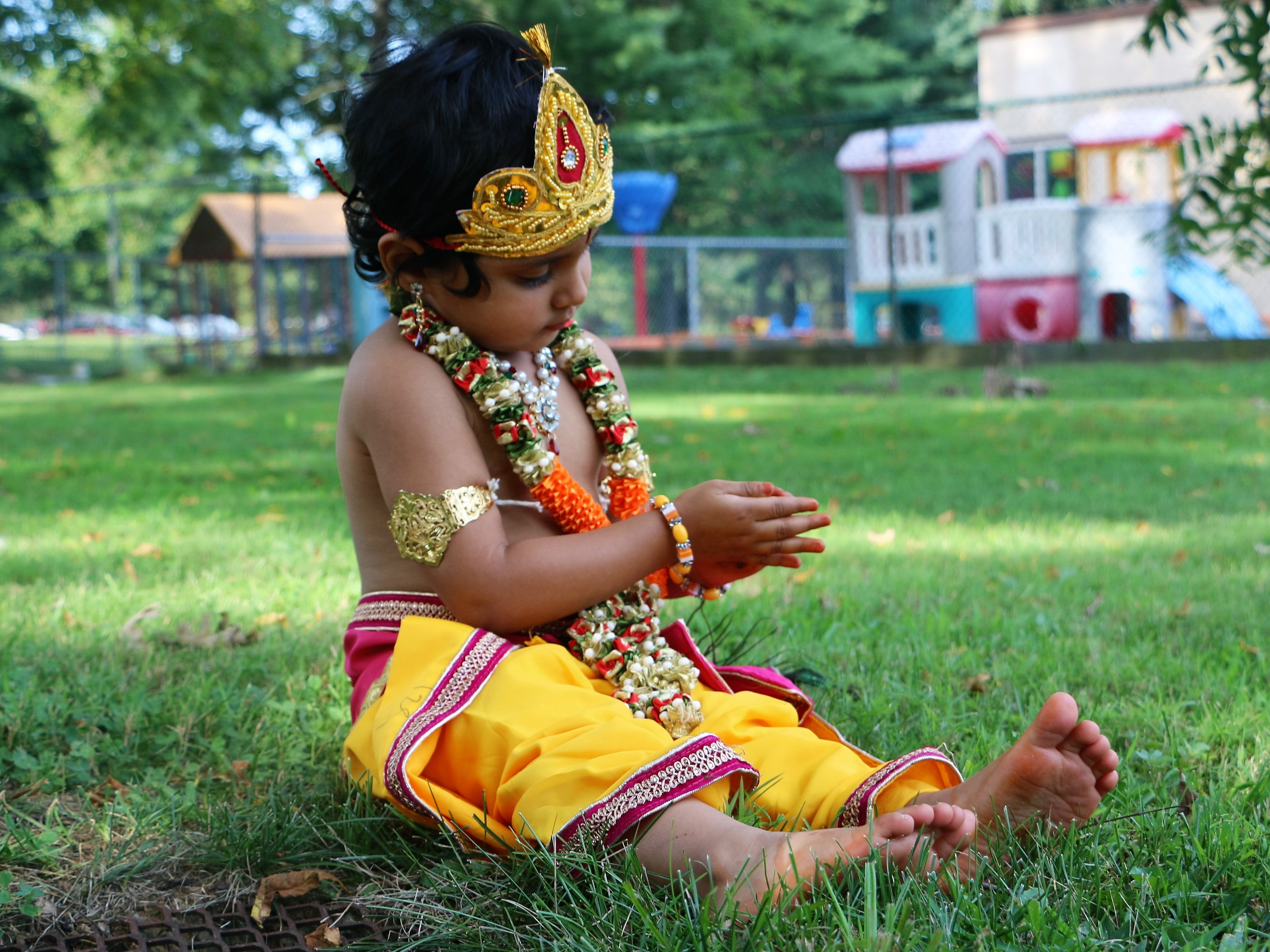 A Toddler dressed up as Krishna. Usually done during Krishnastami day